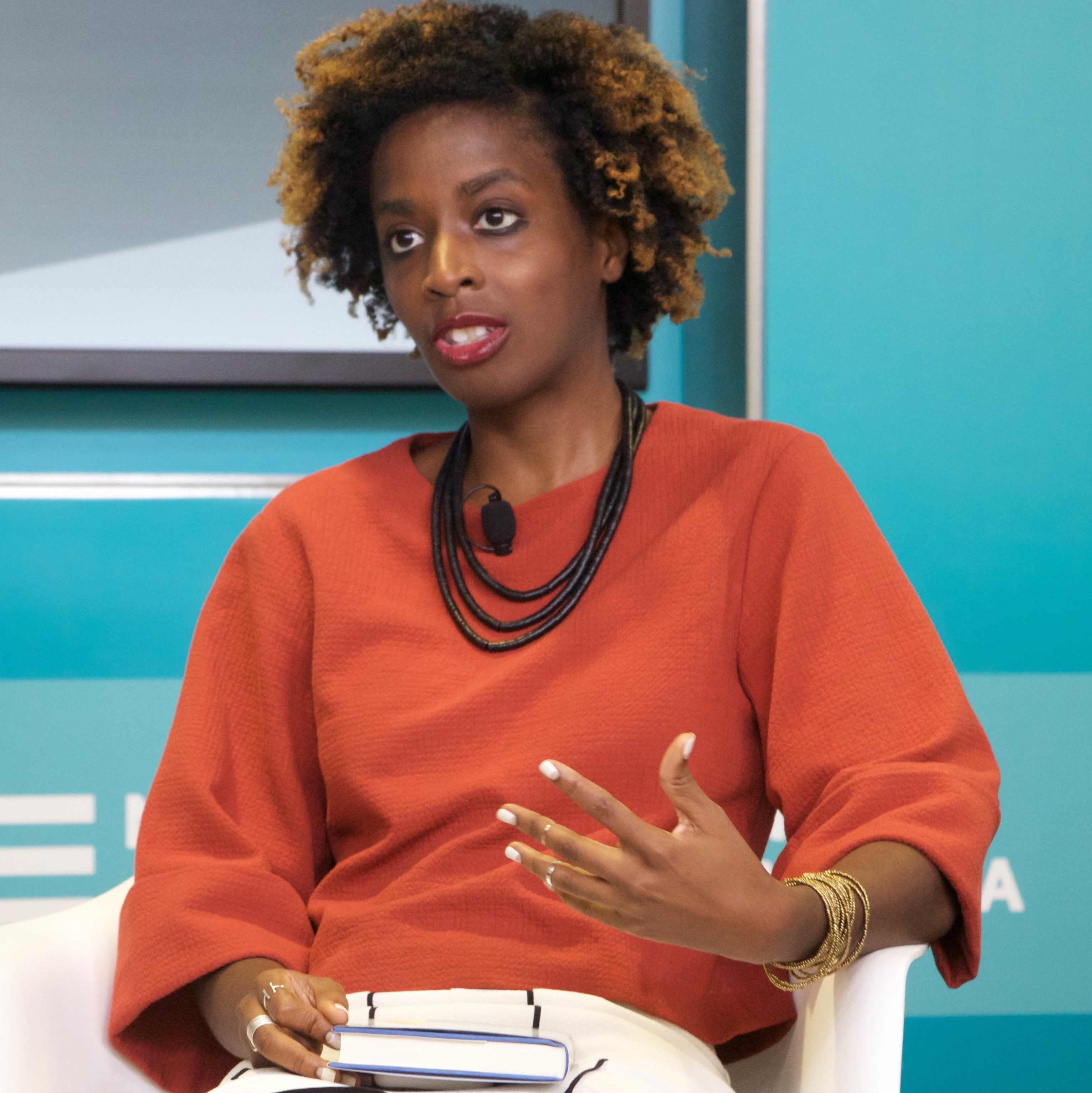 Alexis Okeowo, Staff writer, The New Yorker; New America National Fellow, Class of 2016 & 2017; Author, A Moonless, Starless Sky: Ordinary Women and Men Fighting Extremism in Africa; 2012 IRP Fellow, reporting from Nigeria